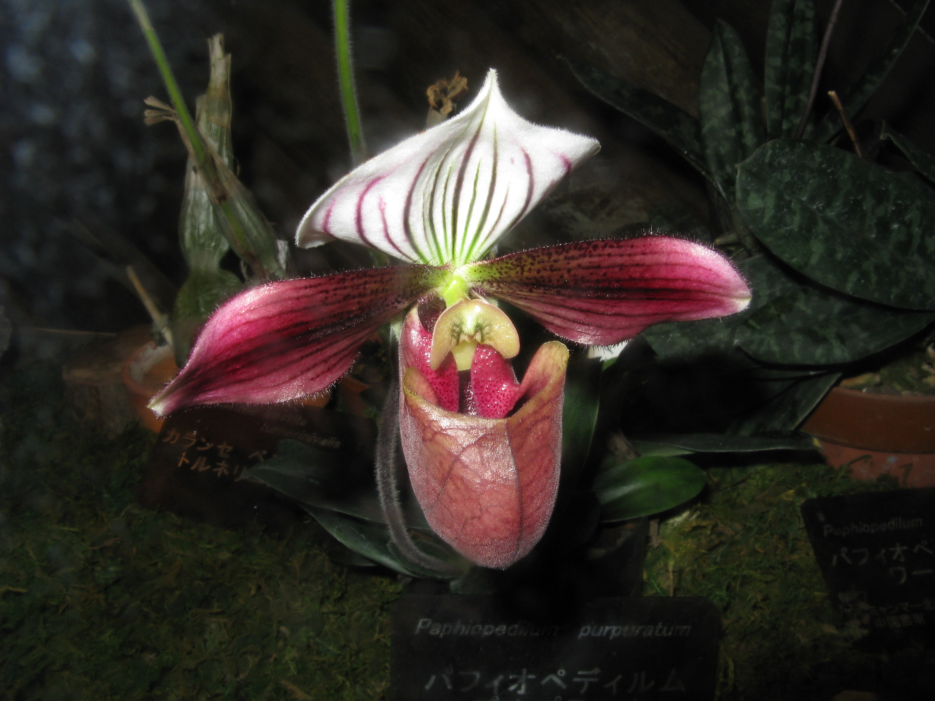 Scientific name Paphiopedilum purpuratum Place:Osaka Prefectural Flower Garden,Osaka,Japan